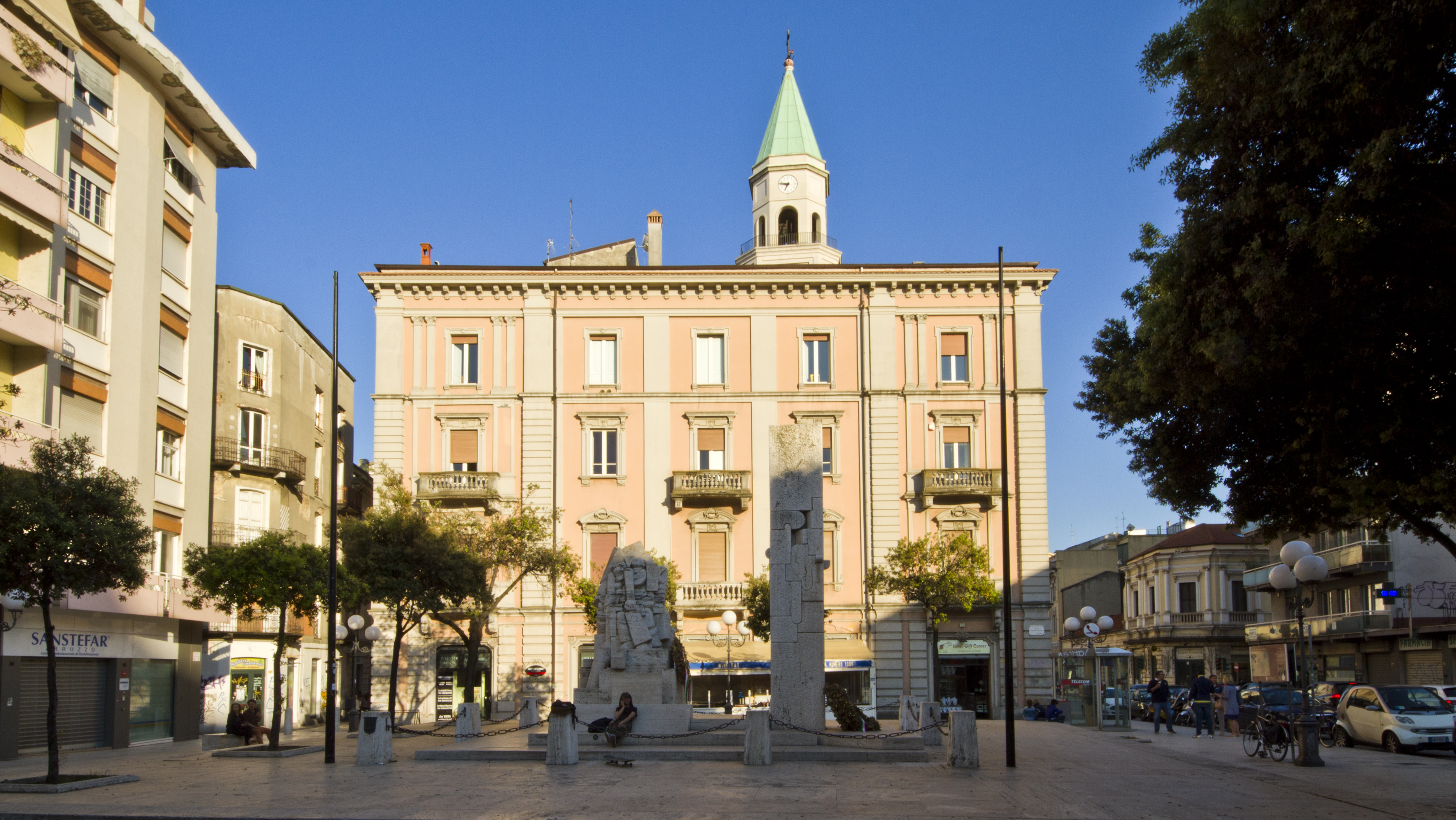 Pescara, Province of Pescara, Italy